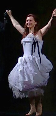 Curtain call for a performance of Bellini's I Capuleti e i Montecchi at the Gran Teatre del Liceu, Barcelona in May 2016. Patrizia Ciofi performed the role of Juliet.